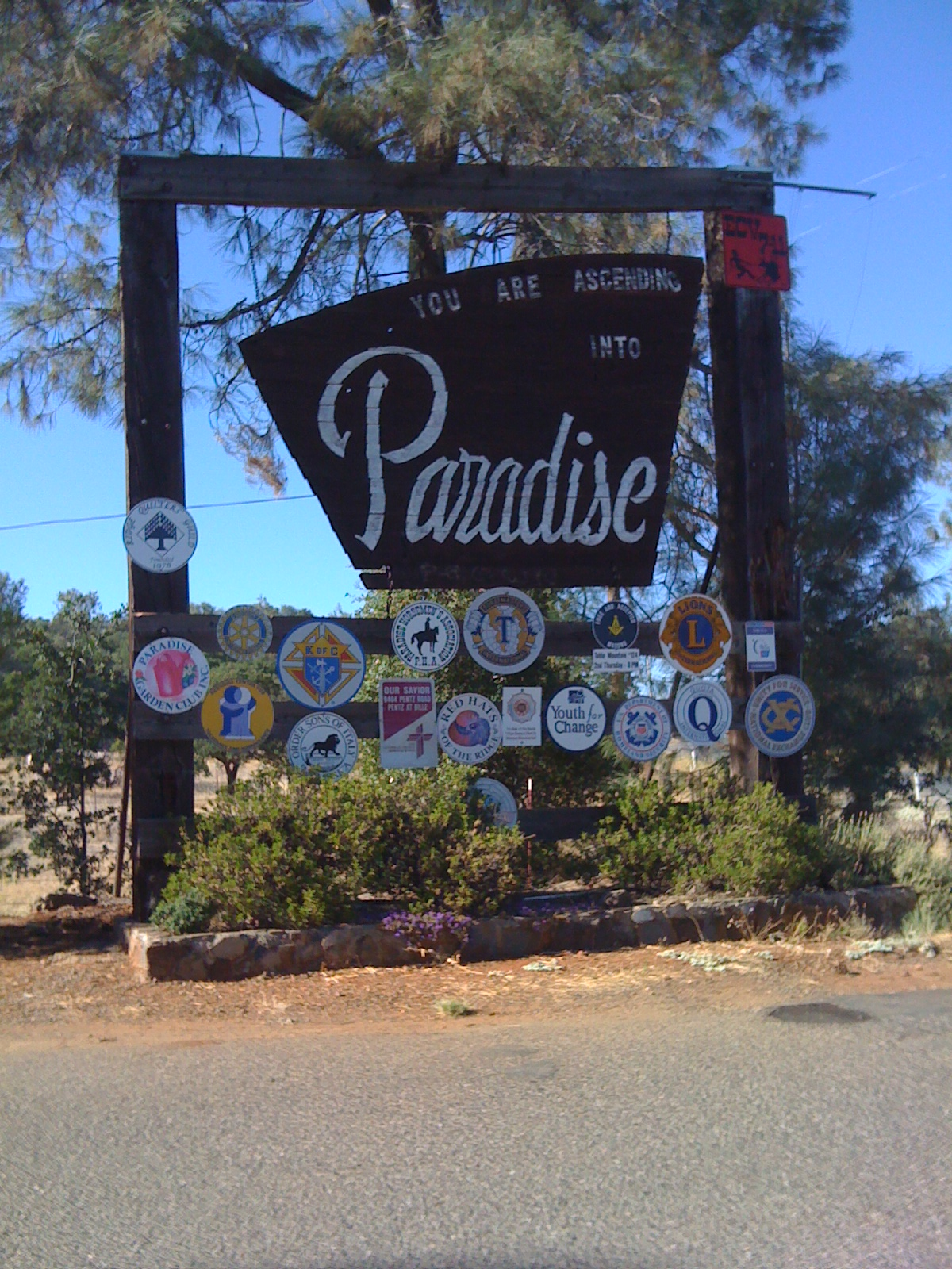 Welcome to Paradise sign on Clark road